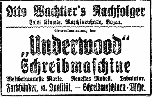 Underwood Advertisement 1921